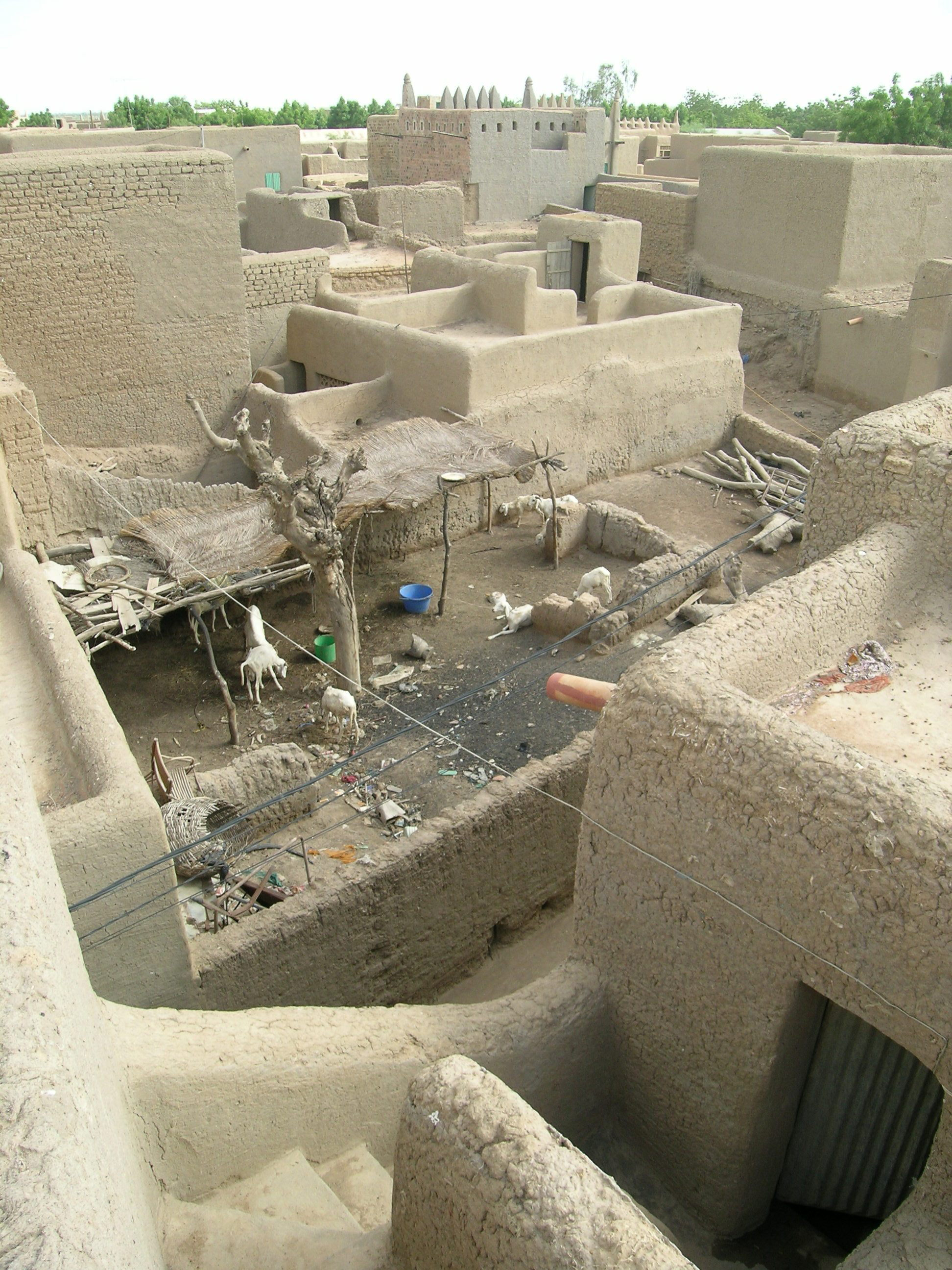 Djenne, city in Mali, West Africa